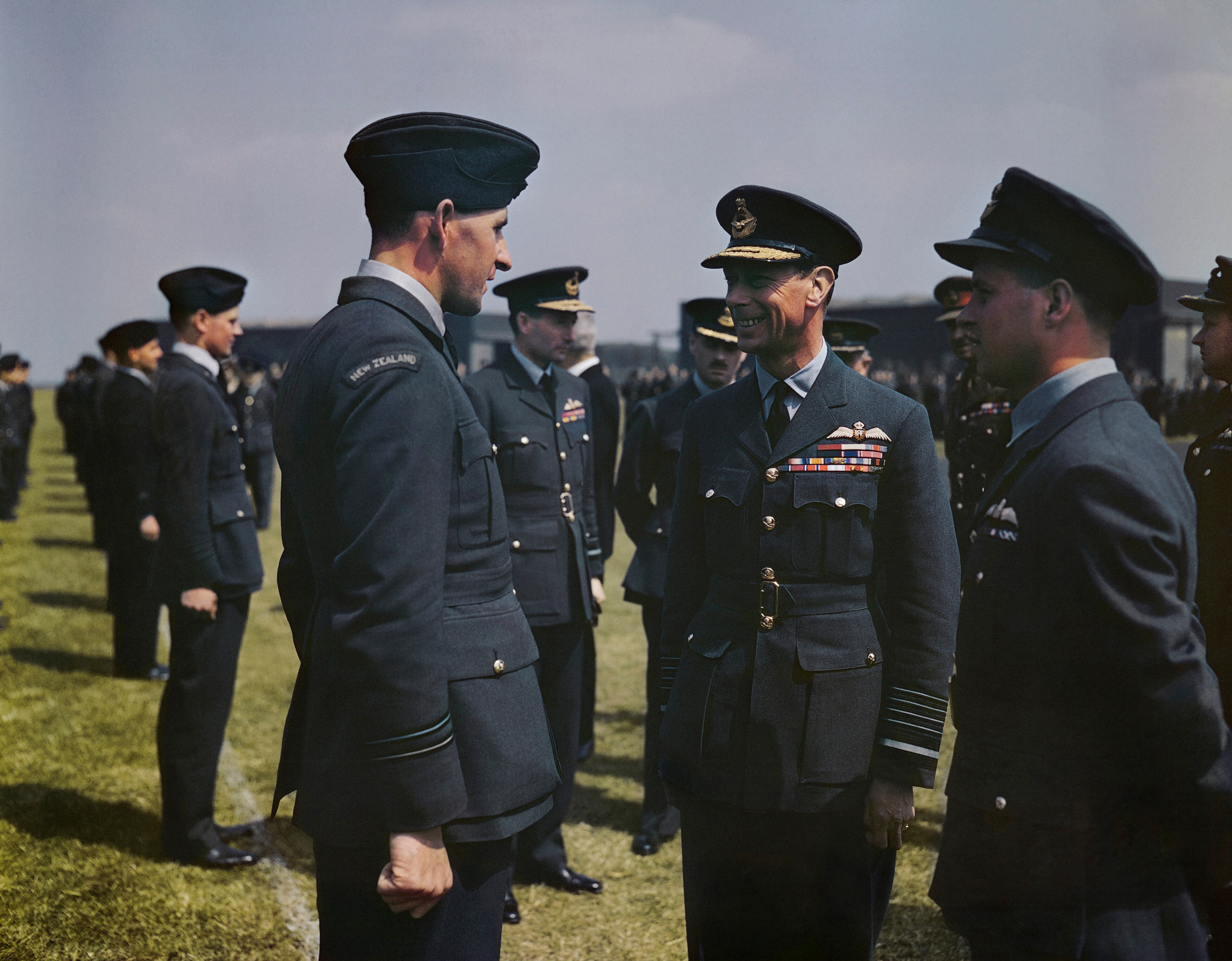 The visit of HM King George VI to No 617 Squadron (The Dambusters), Royal Air Force, Scampton, Lincolnshire, 27 May 1943 - The King has a word with Flight Lieutenant Les Munro from New Zealand. Wing Commander Guy Gibson is on the right and Air Vice Marshal Ralph Cochrane, Commander of No 5 Group is behind Flight Lieutenant Munro and to the right.